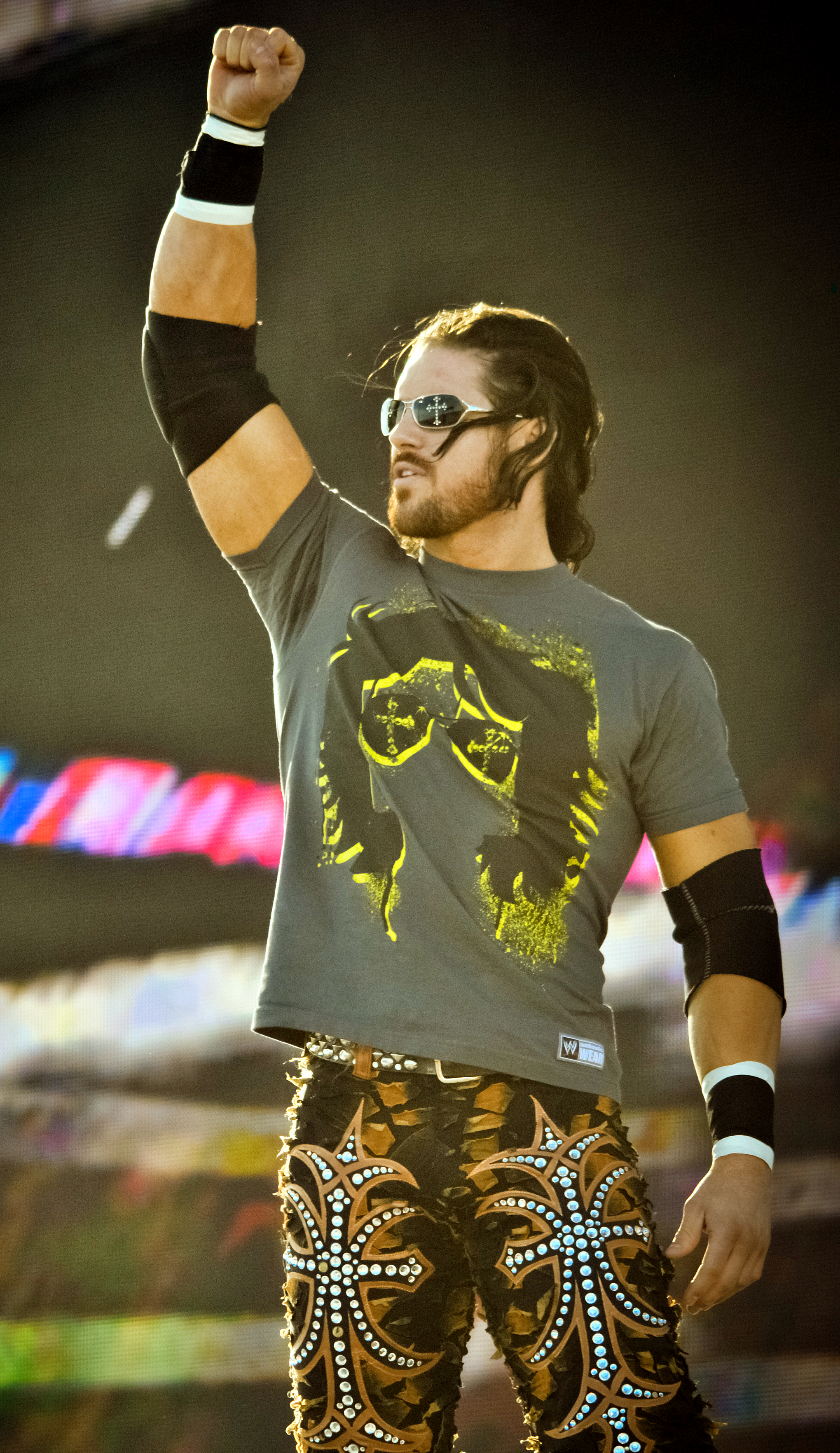 John Morrison at the WWE: Tribute to the Troops 2010.